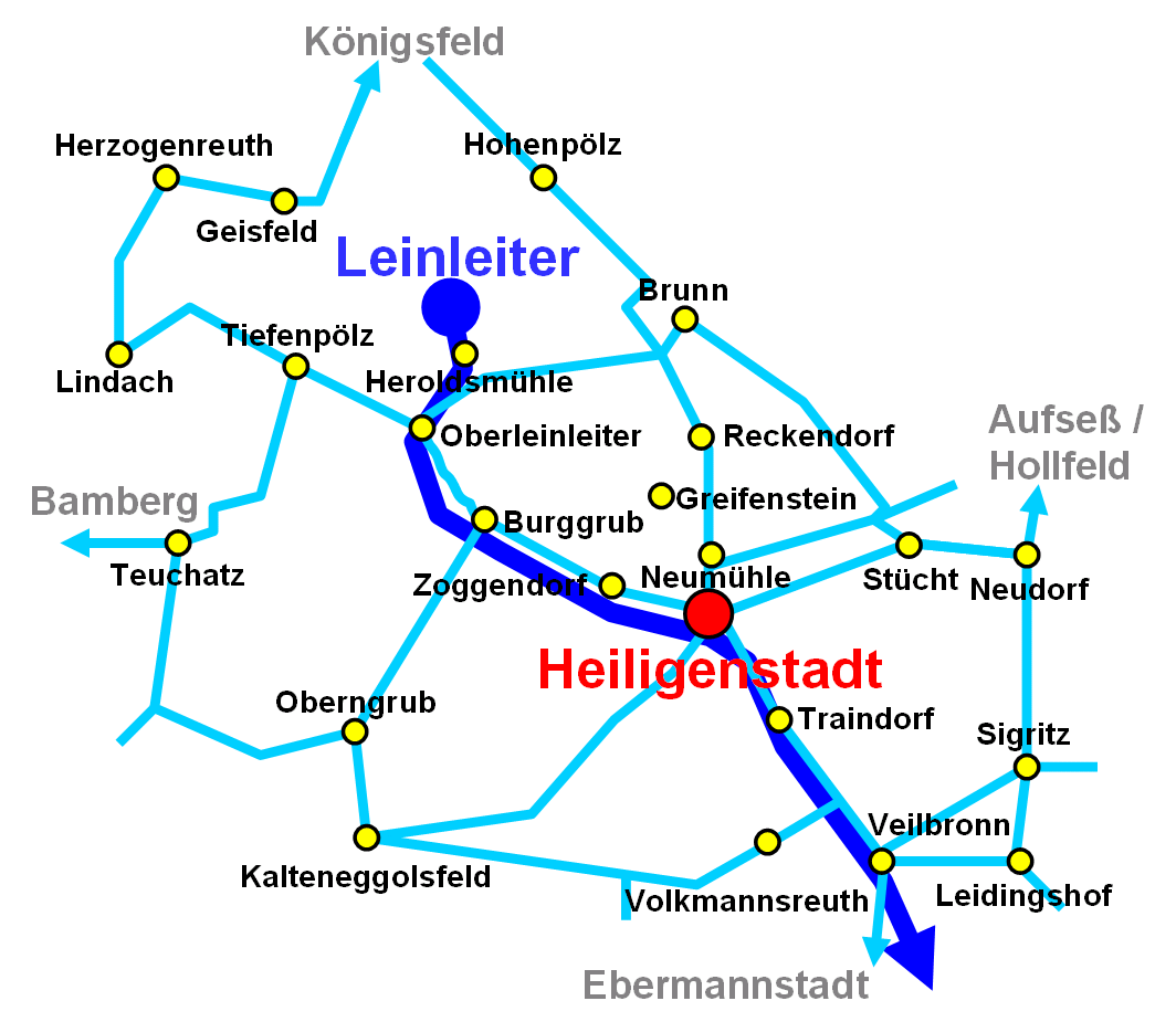 map of Heiligenstadt in Oberfranken (Franconia)